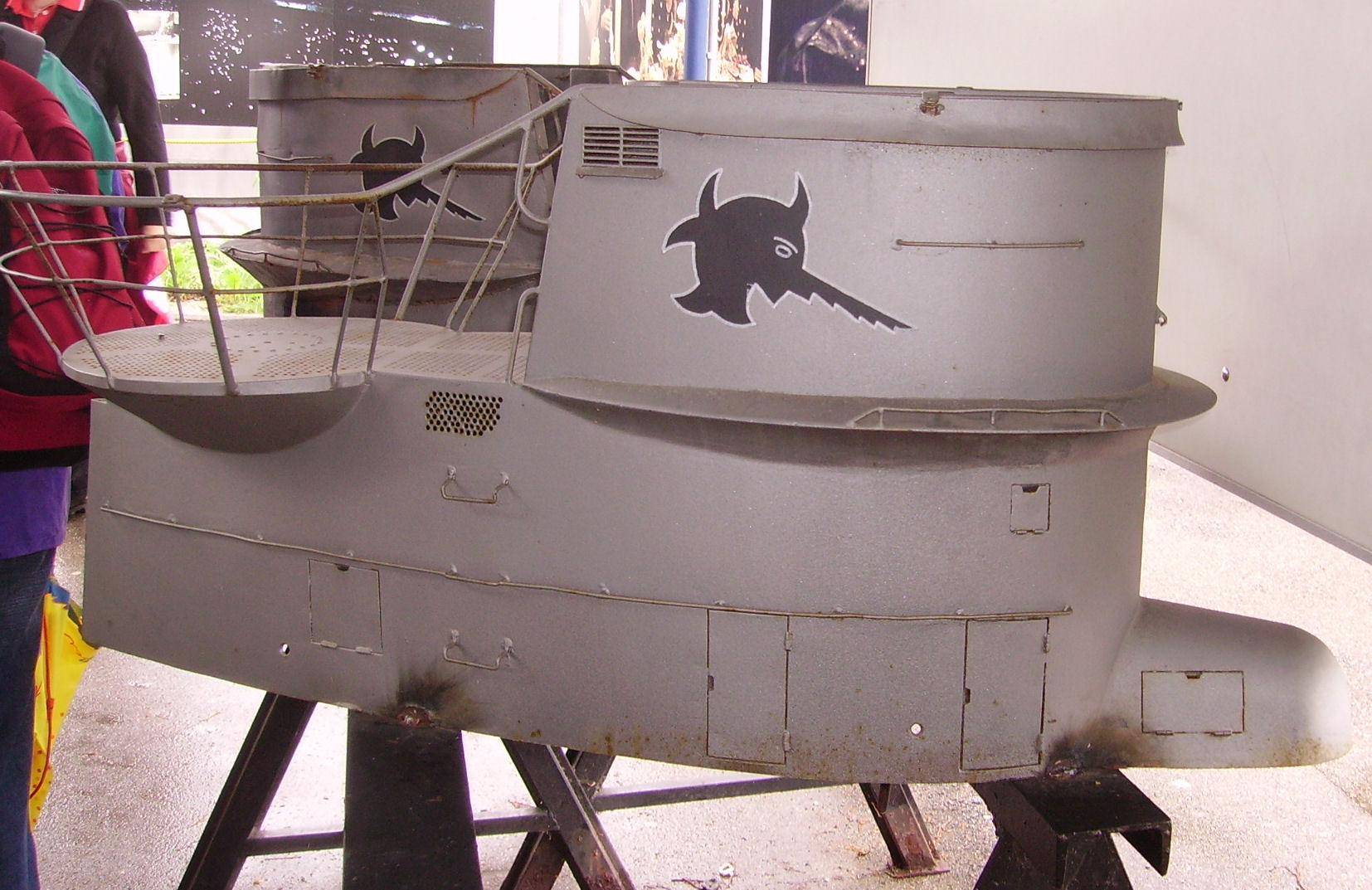 Bavaria Film in Munich, Germany